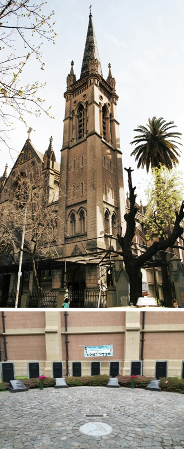 Church of Santa Cruz. Argentina. Buenos Aires. Memory place. Graves of Mothers of Plaza de Mayo Azucena Villaflor, Esther Ballestrino and María Ponce, as well as sister Léonie Duquet.